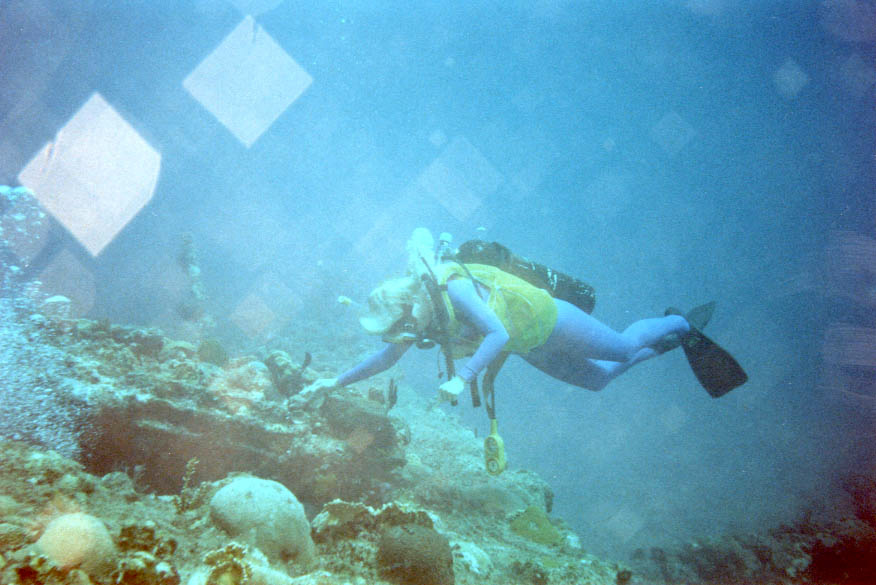 Diver exploring the wreck of the RMS Rhone at Salt Island in the Virgin Islands. (The floating squares in the water are reflections from the camera flash by suspended particles close to the lens.)